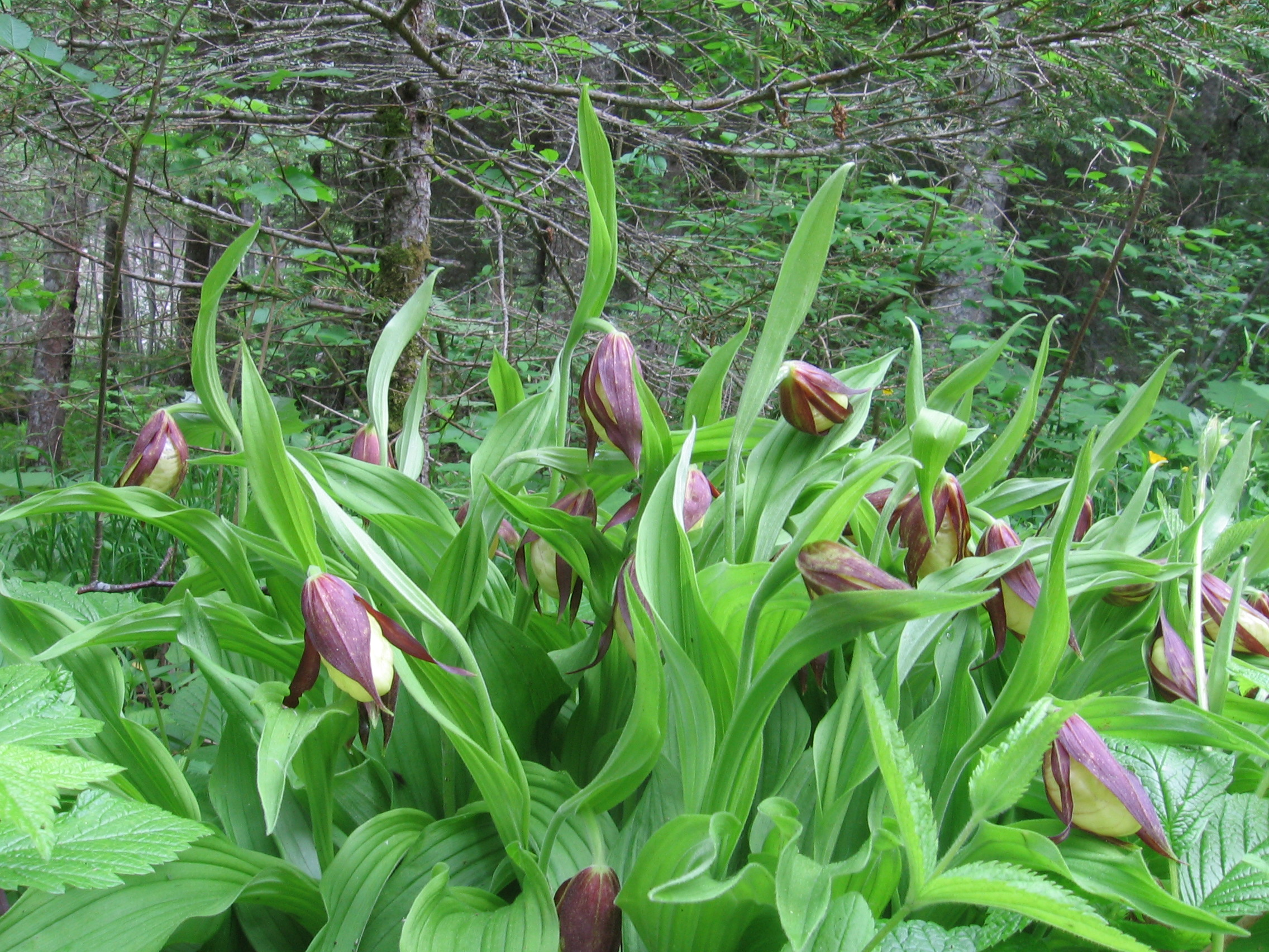 Cypripedium_calceolus in Les_Contamines-Montjoie